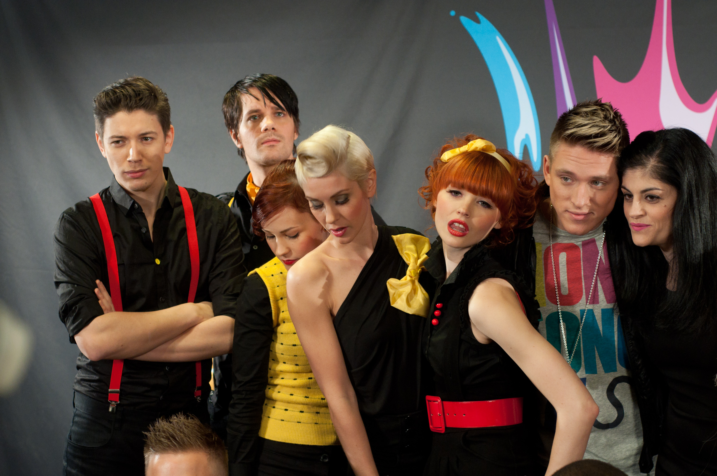 Le Kid, Danny Saucedo and Dilba 2010 at a press conference for Melodifestivalen 2011